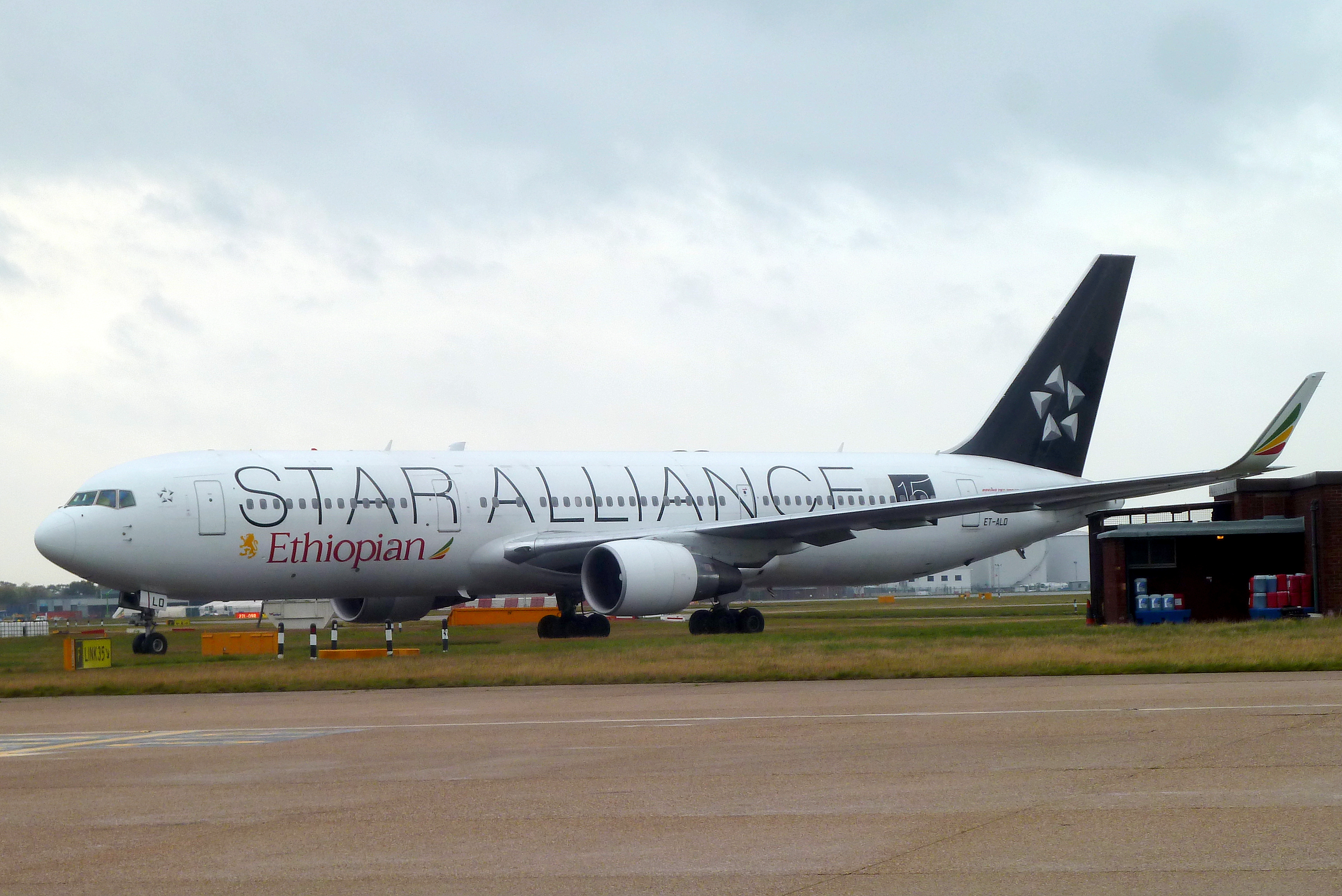 ET-ALO B767-300 Ethiopian Airlines on the remote stand amblazoned with its blended wingtips.